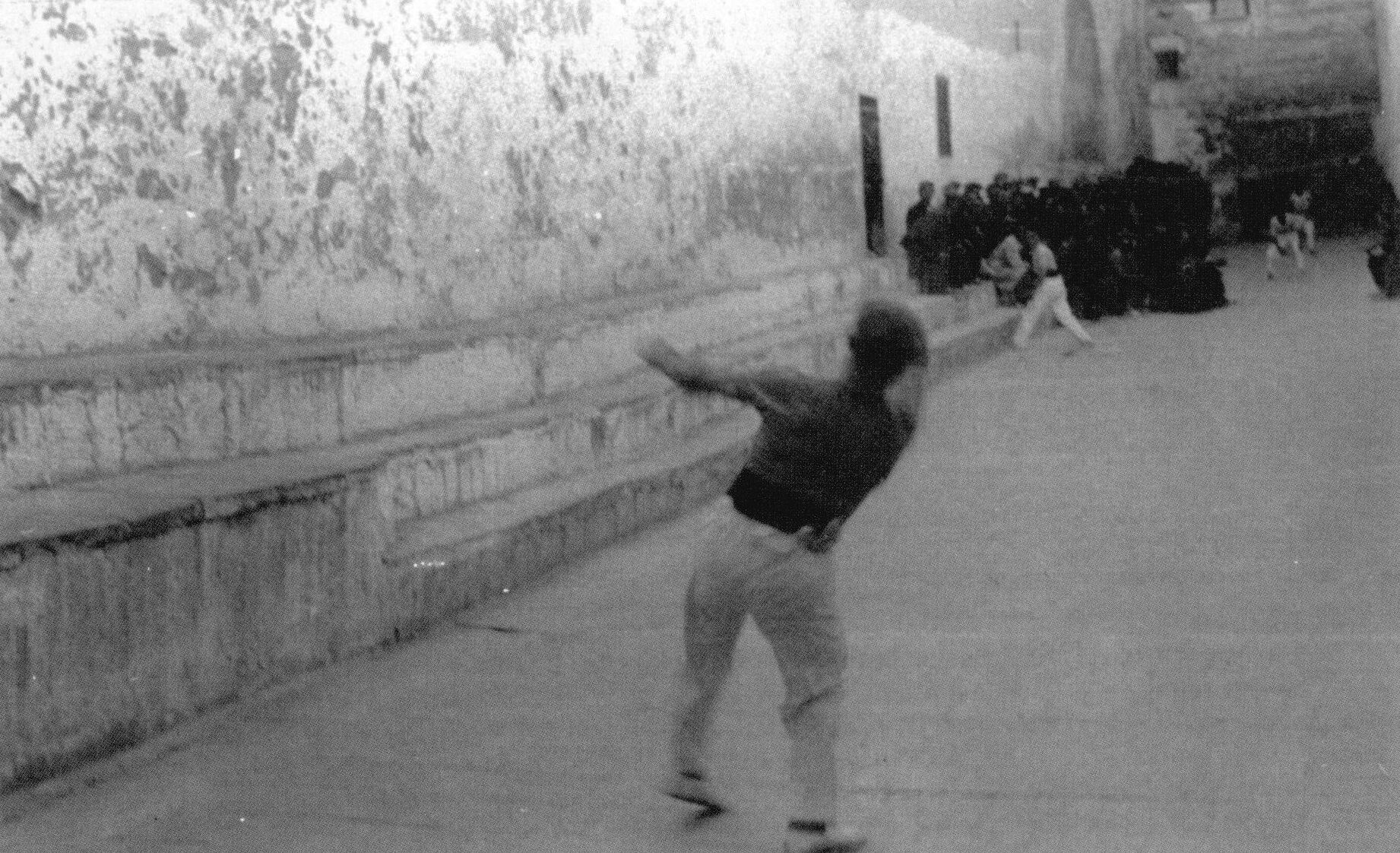 1926 Valencian pilota match at Alcoi.